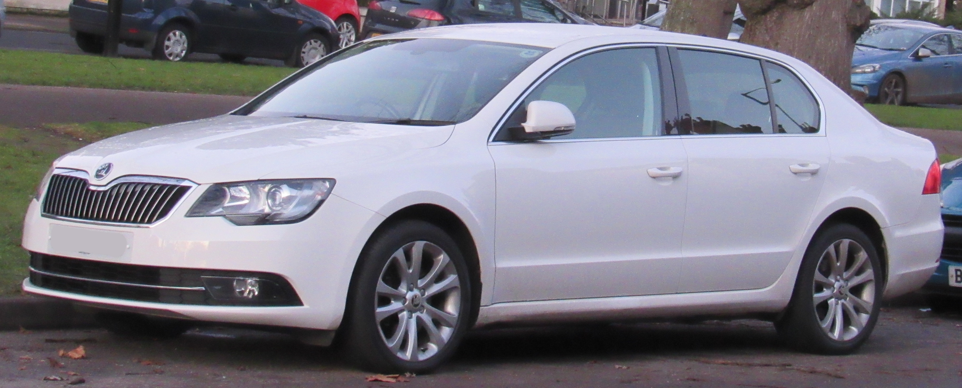 2014 Skoda Superb SE TDi CR S-A 2.0 facelift Front Taken in Leamington Spa